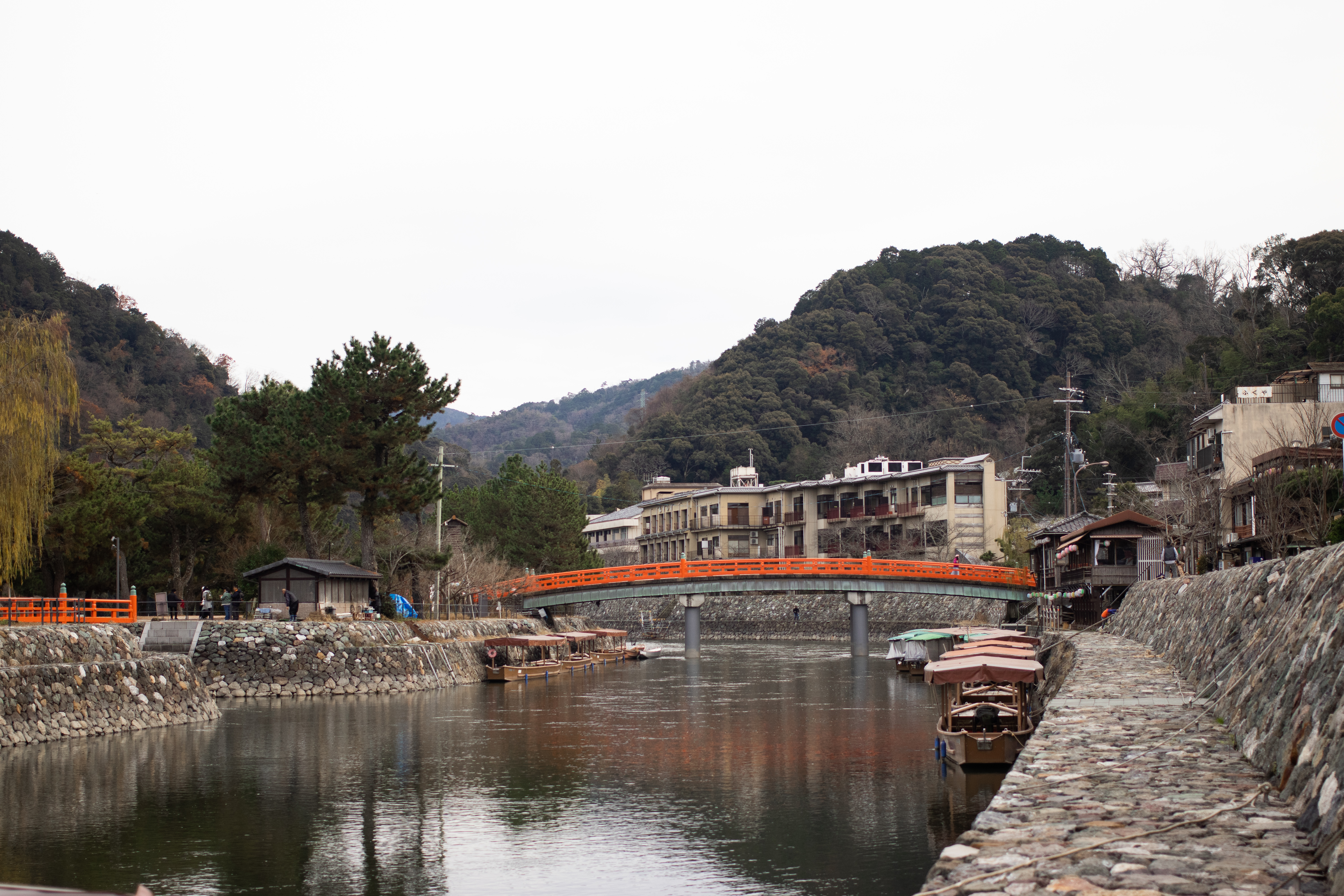 The Kisen Bridge to 字治公園 (Uji Park) which is a small island in the Uji-Gawa River.